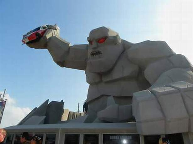 Miles the Monster, mascot of Dover International Speedway. The 46-foot statue greets visitors near the Victory Plaza.